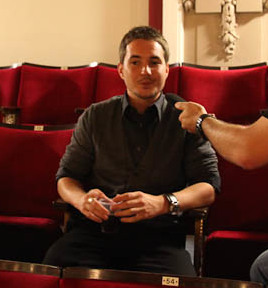 Christian Payne using Audio Boo to interview Martin Compston the star of Soul Boy, at the premier at the Kings Hall in Stoke-on-Trent